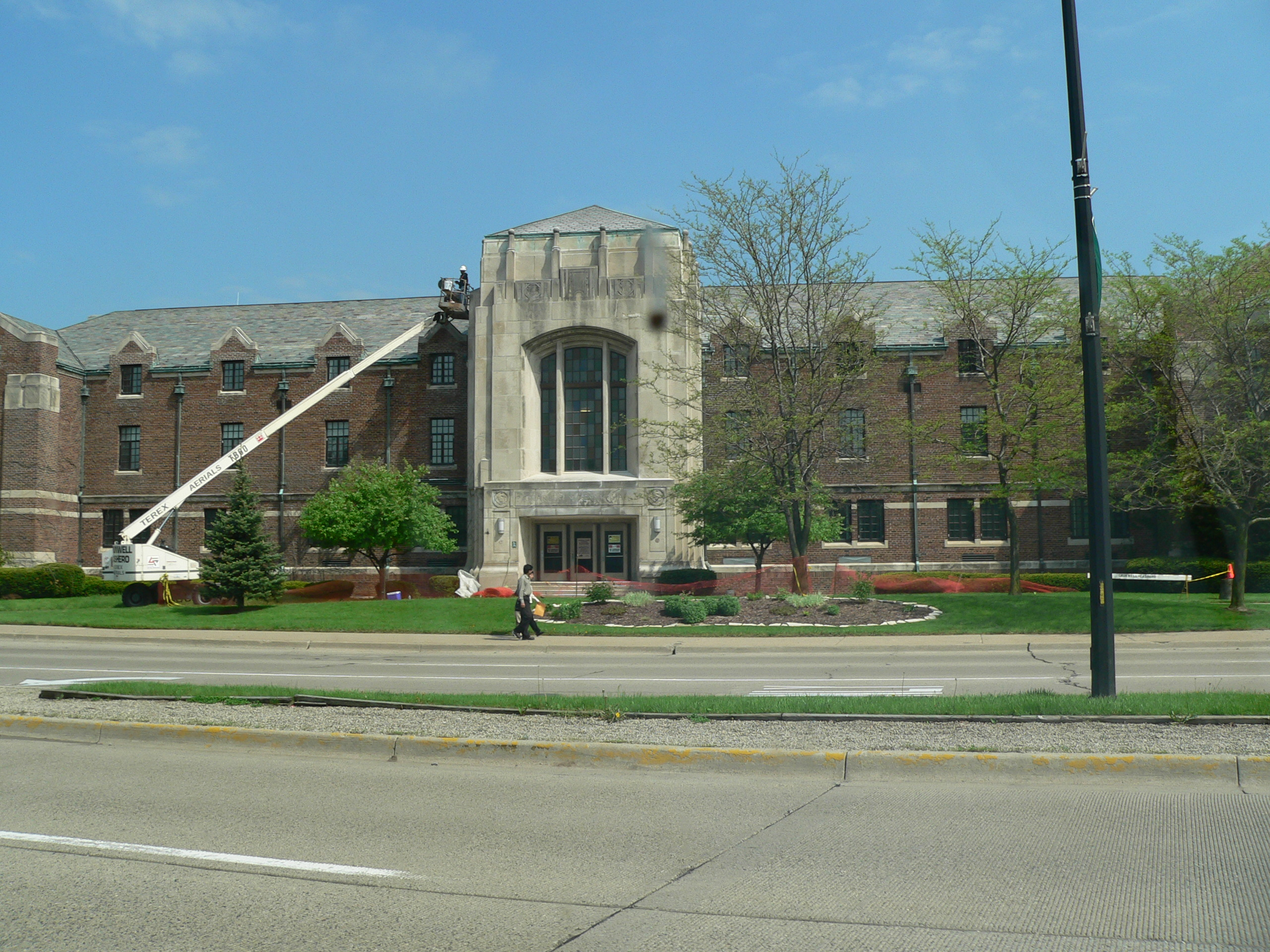 Photograph of the front of Eastern Michigan University's McKenny Union, near the end of the 2006-2007 remodelling.